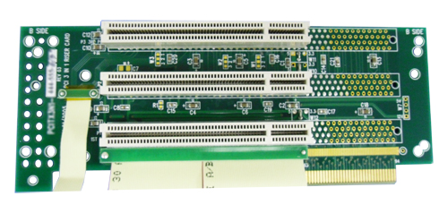 Core Systems 2U 3 slot 32-bit PCI Riser Card